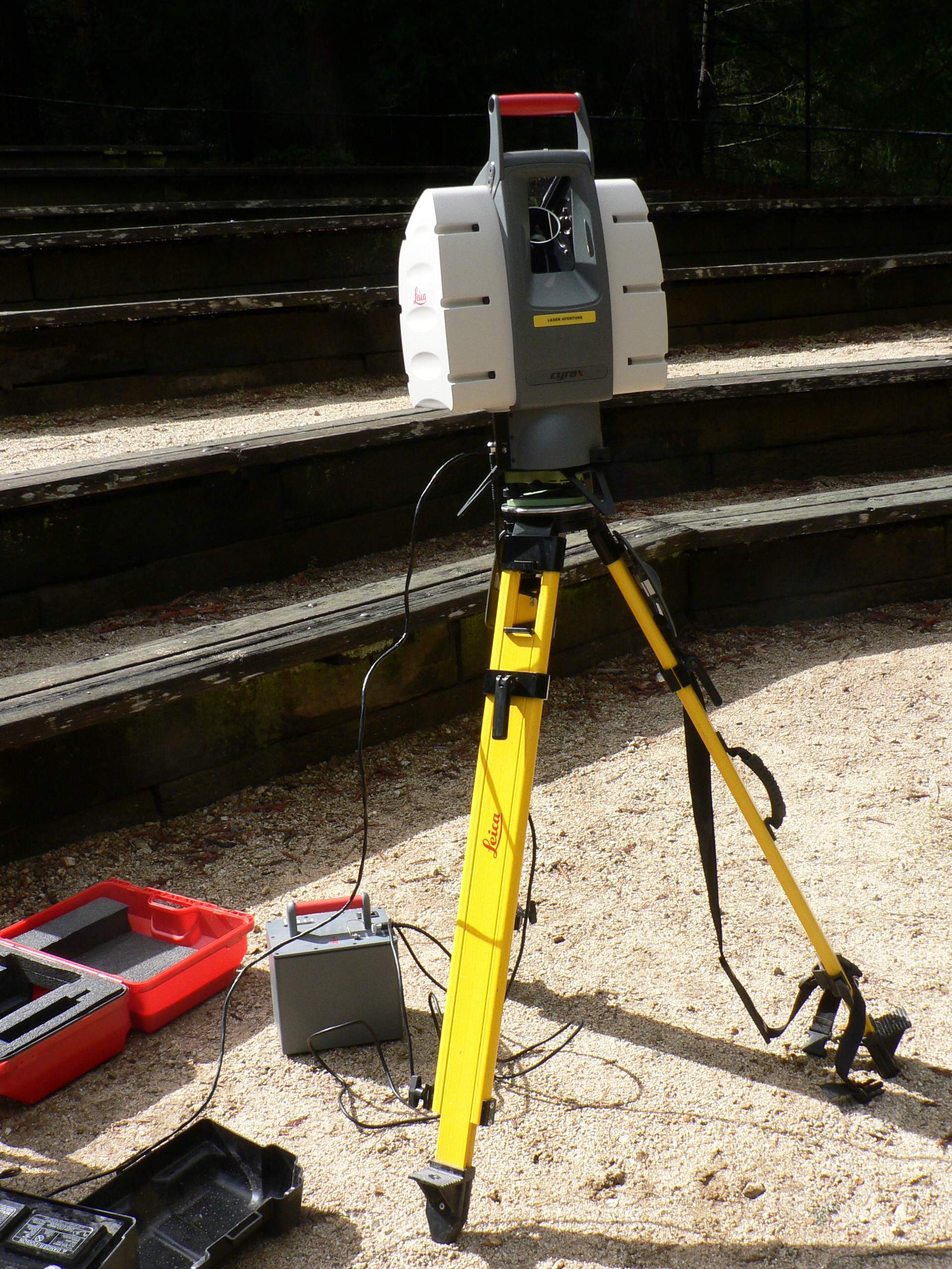 This Leica terrestrial lidar (light detection and ranging) scanner (TLS) may be used to scan buildings, rock formations, etc., to produce a 3D model. The TLS can aim its laser beam in a wide range: its head rotates horizontally, a miror flips vertically. The laser beam is used to measure the distance to the first object on its path. Model: Leica HDS-3000 The Lidar was being demonstrated at UC Santa Cruz when the photo was taken.